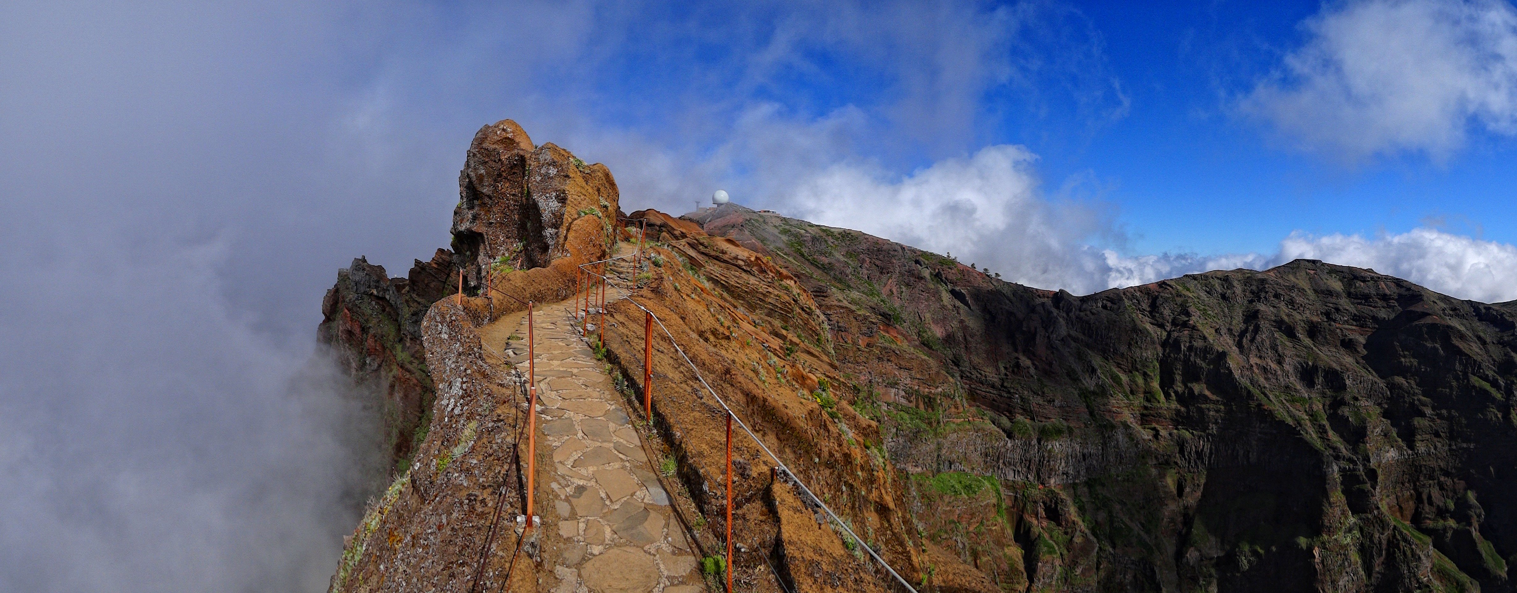 The peak of Pico do Arieiro as seen from the footpath leading up to it from the west, arriving from Pico Ruivo. The valley to its north is covered in fog, while the Valley of the Nuns to the south is clear and sunny.